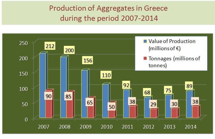 Aggregates' production of Greece